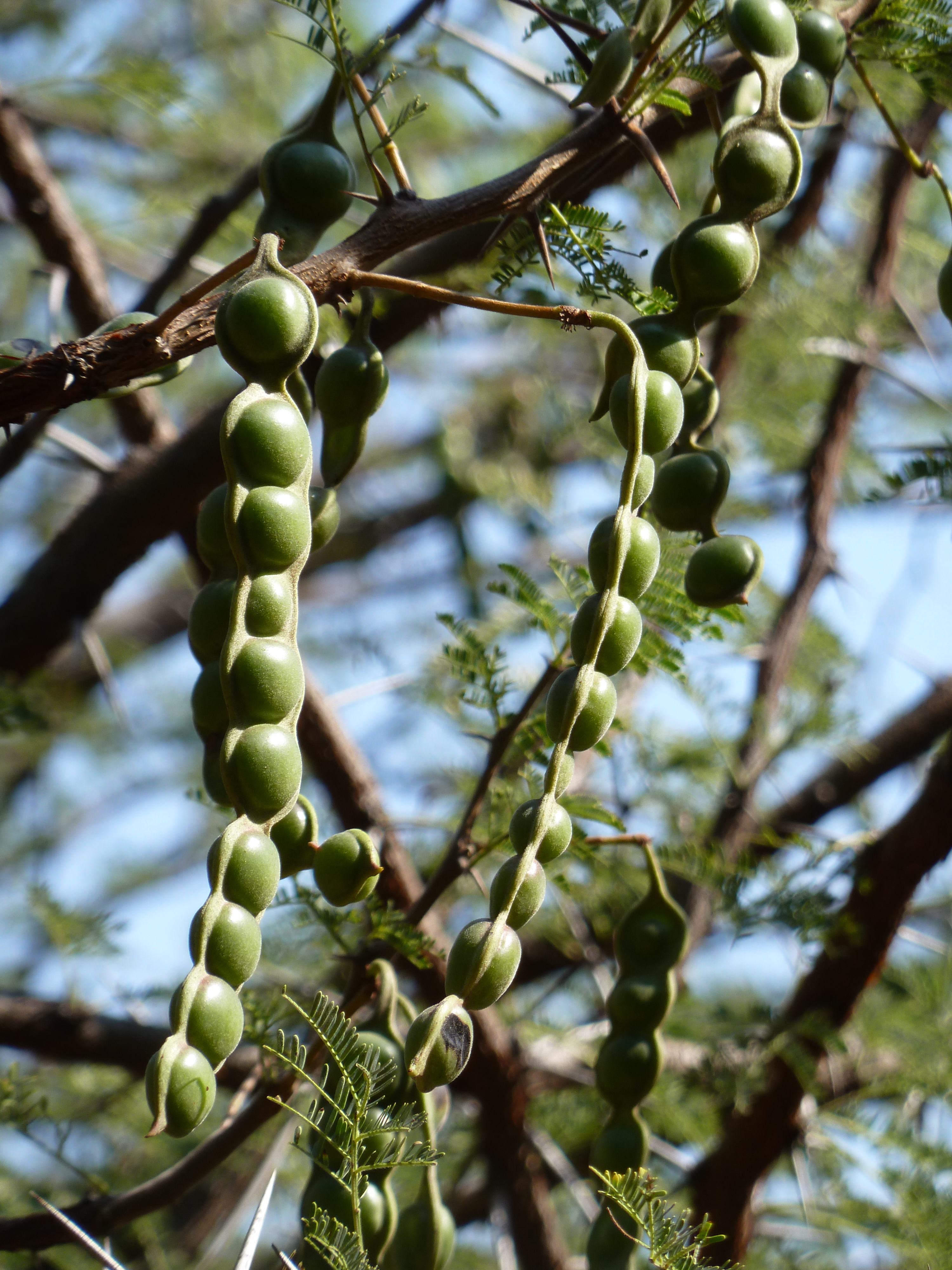 Seed pods of a Scented thorn in the gardens of the Union Buildings, Pretoria